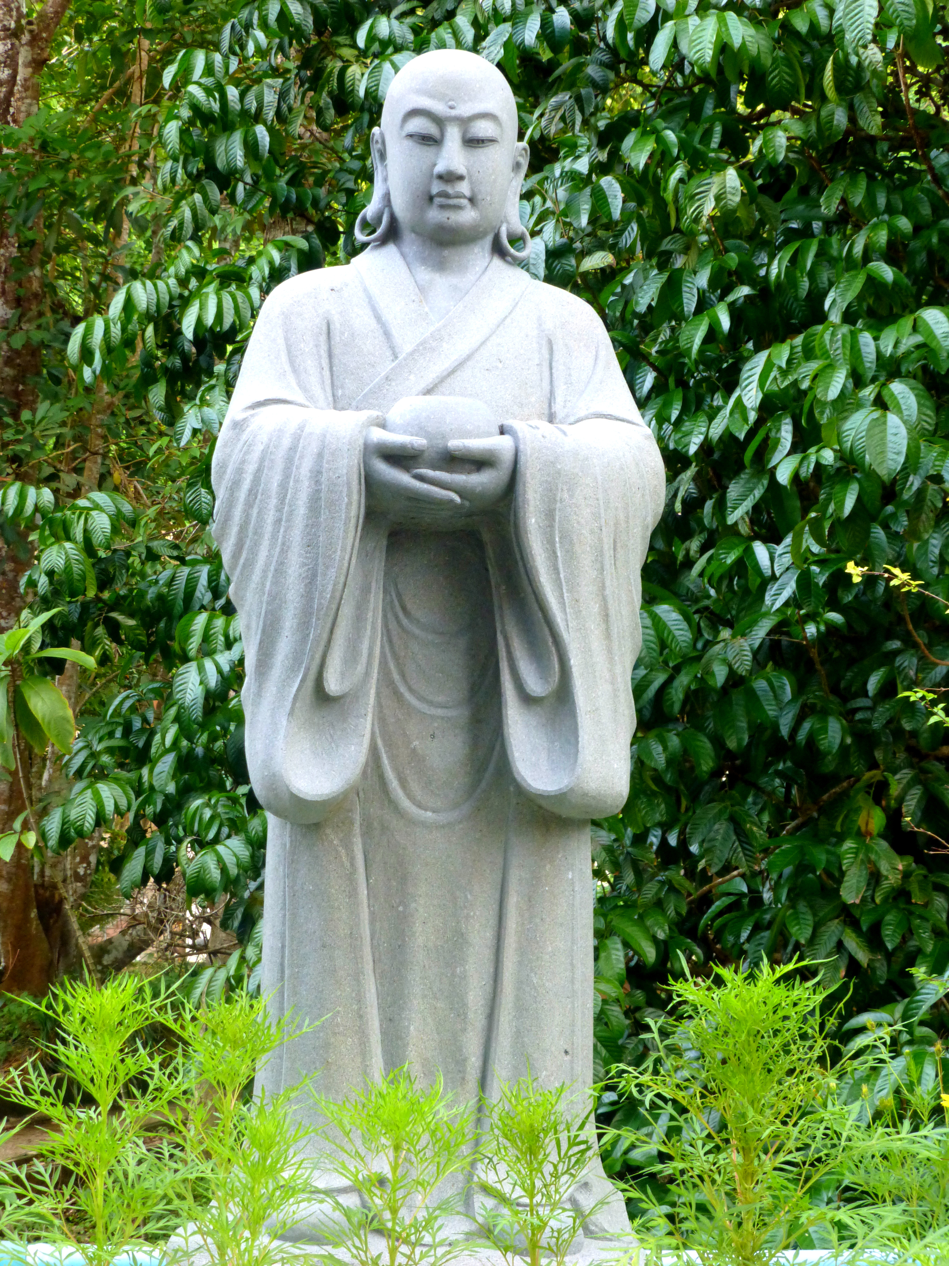 47 pu tuo ye pu tuo ye, Wat Khao Rup Chang, Songkhla, Thailand Photograph from Wat Tham Khao Rup Chang in Songkhla Province, Thailand taken by Anandajoti.